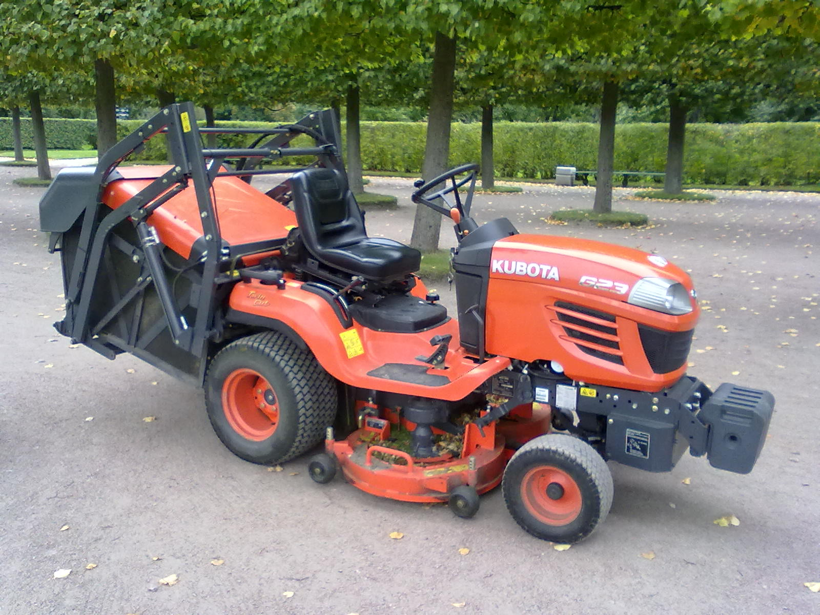 Kubota G23 lawn tractor (tractor-style ride-on mower)